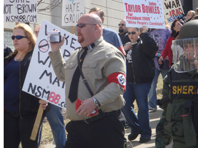 NSM parade in Columbia, Missouri